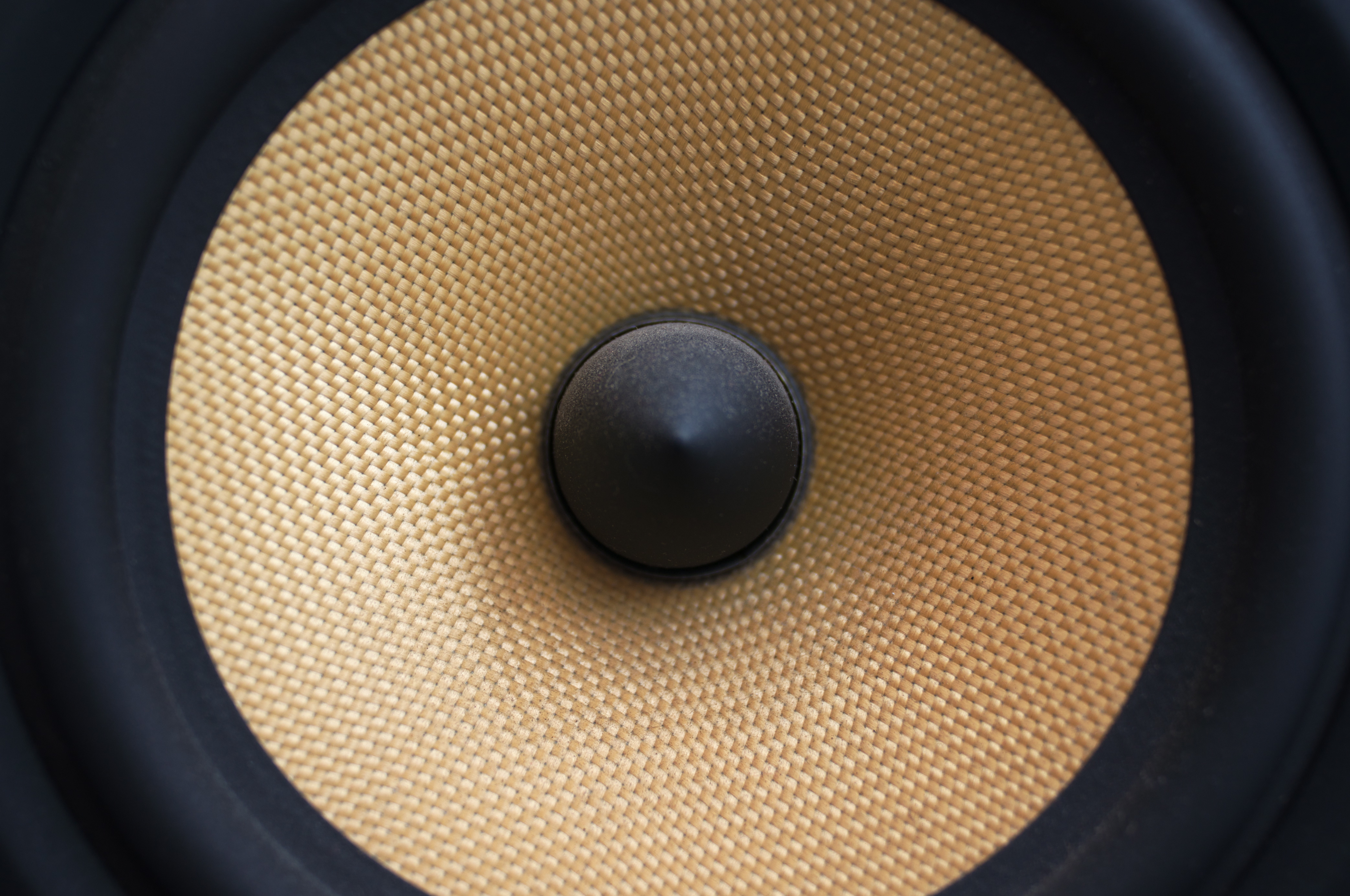 The Bowers & Wilkins 685 medium/bass driver, made of kevlar. Diameter : 165 mm (6.5 in)